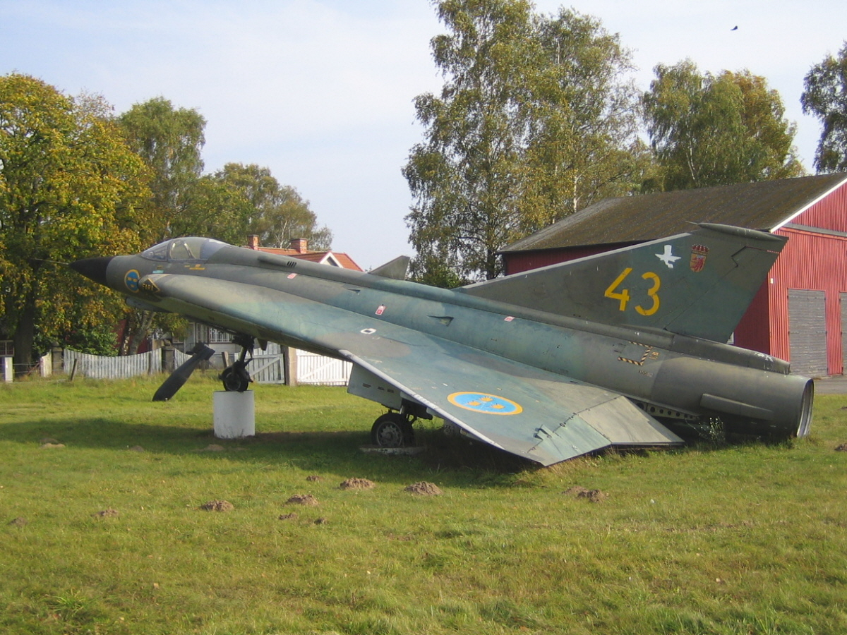 Saab J 35F-2 Draken at Rinkaby former airfield outside Kristianstad, Sweden. The plane is a stripped down old airframe